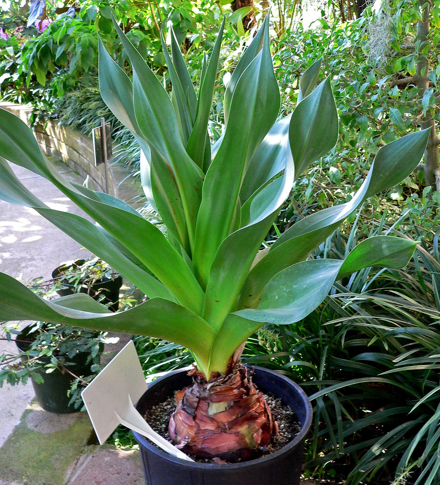 Photo of Urginea maritima at Balboa Park